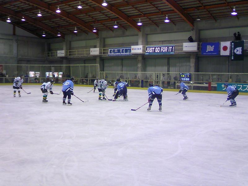 ice hocky J-west ice league